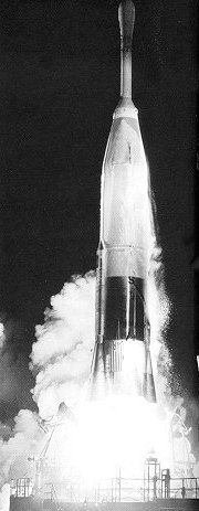 The final launch in the Pioneer lunar probe program with Atlas Able booster rocket carrying Pioneer P-31. Launch vehicle went out of control and exploded at an altitude of 12,200 m off Cape Canaveral.